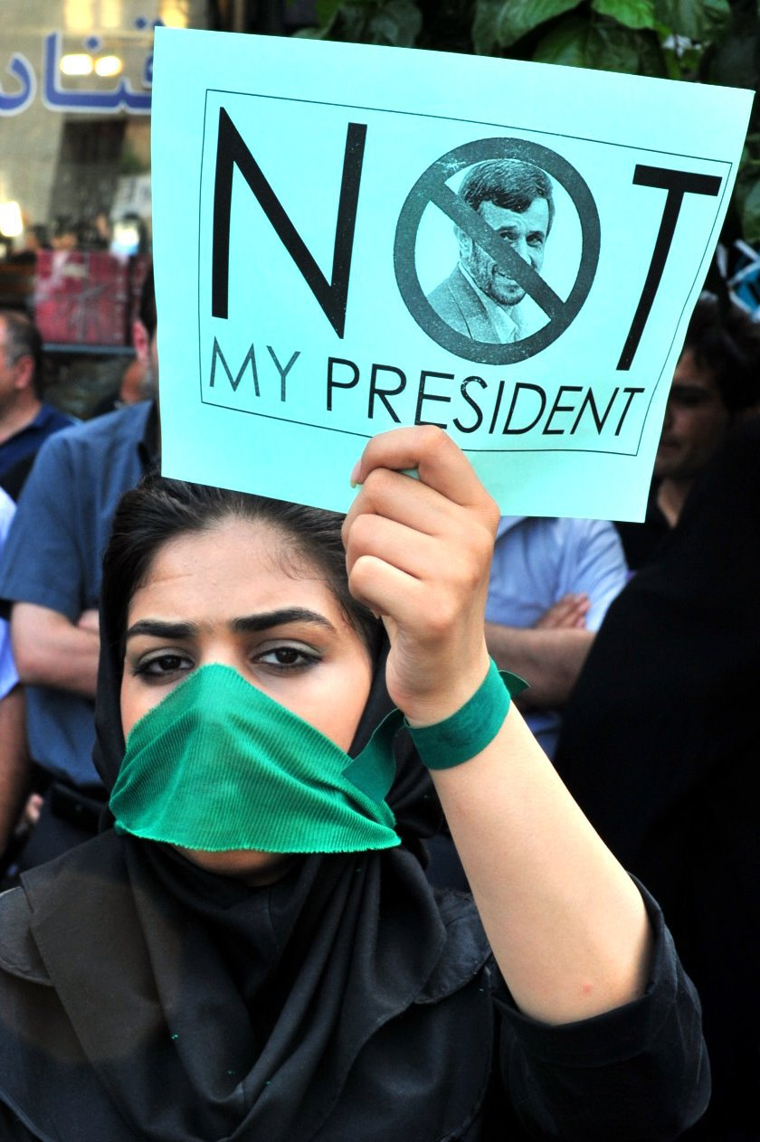 Silent demonstration for saying condolence to family of this week martyrs. A lot more photos from this day: Viva Iran!